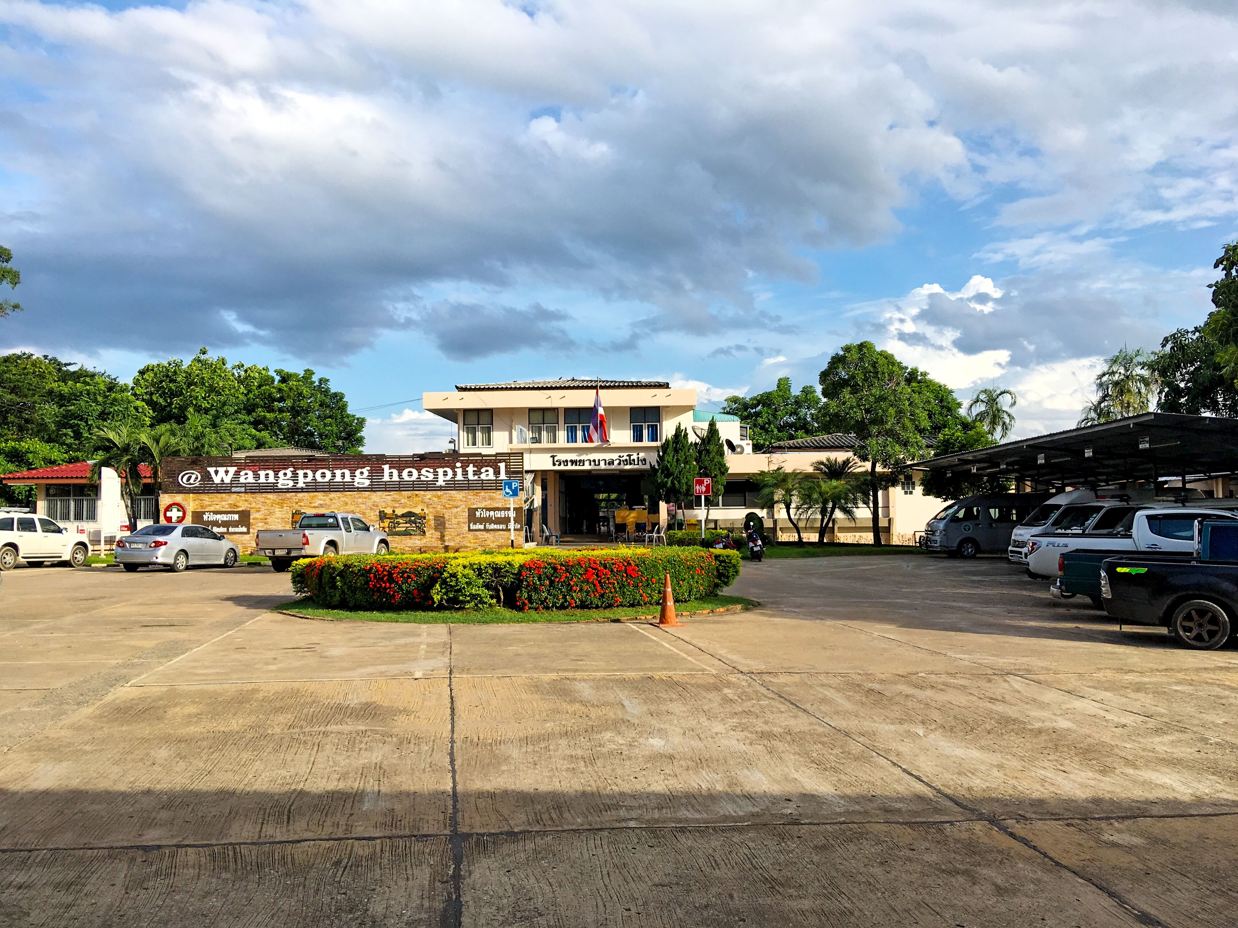 Wang Pong Hospital, Wang Pong District, Phetchabun